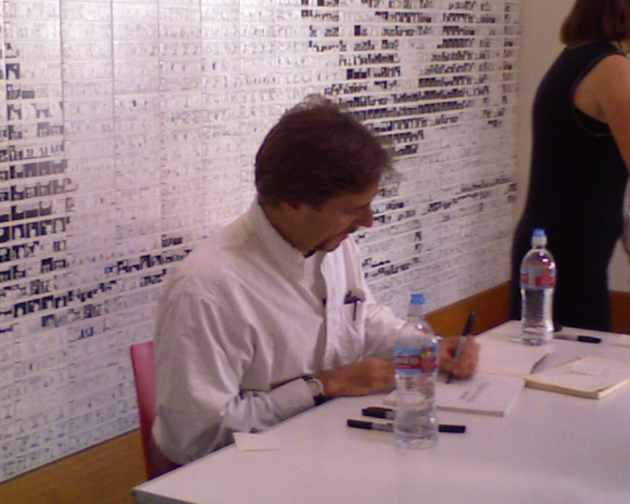 Cartoonist Berkeley Breathed signing a book at the Charles M. Schulz Museum, Santa Rosa, California, on October 18, 2008.